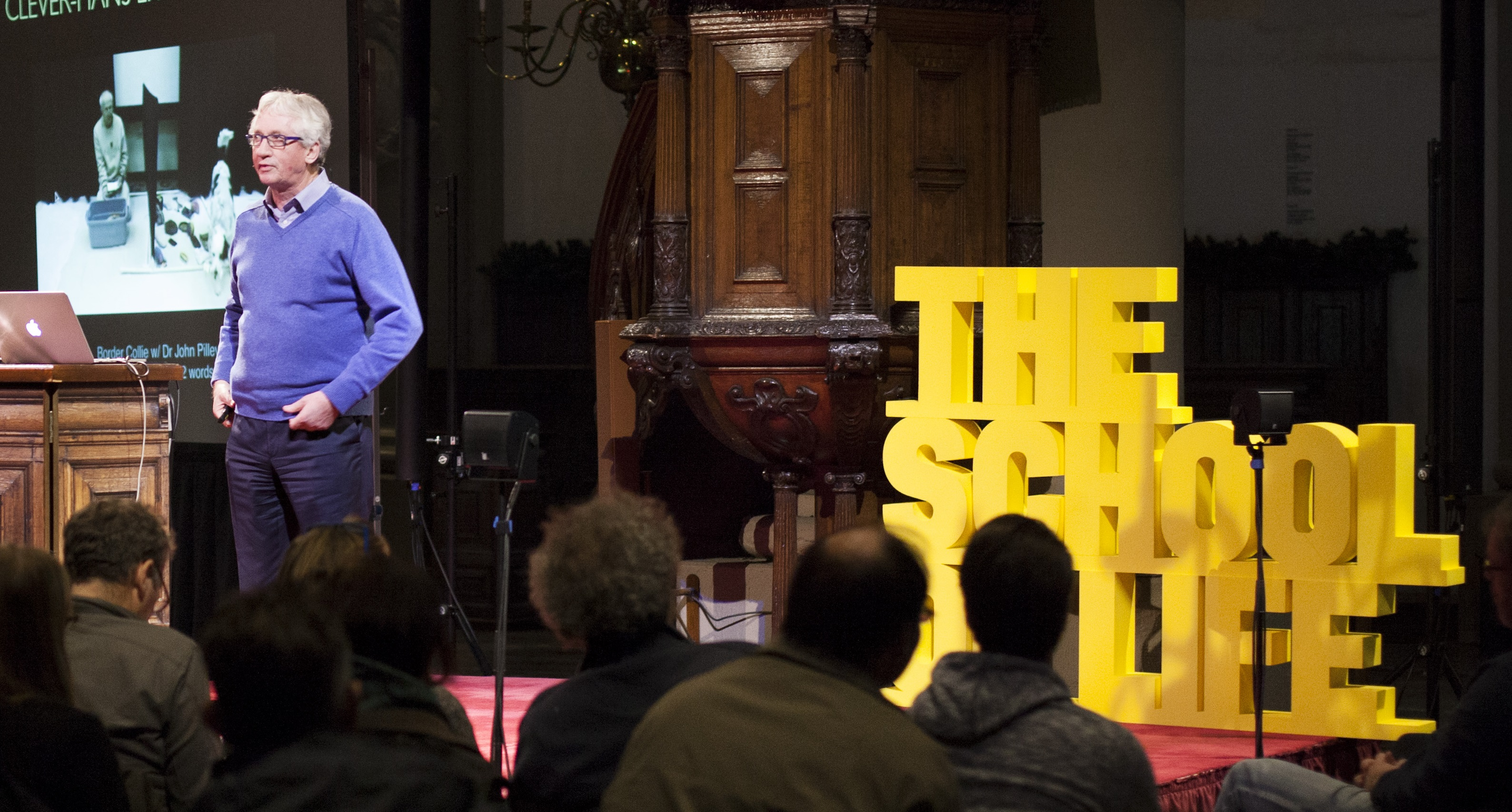 Frans de Waal bij The School of Life